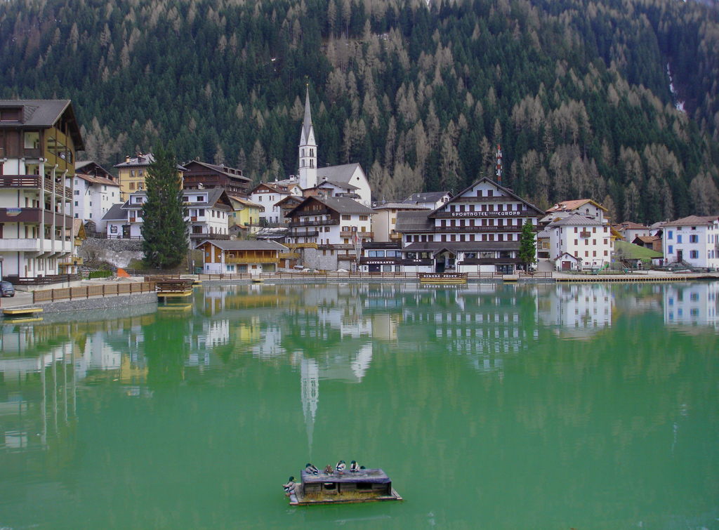 Lake in Alleghe, Dolomiti, Belluno, Italy